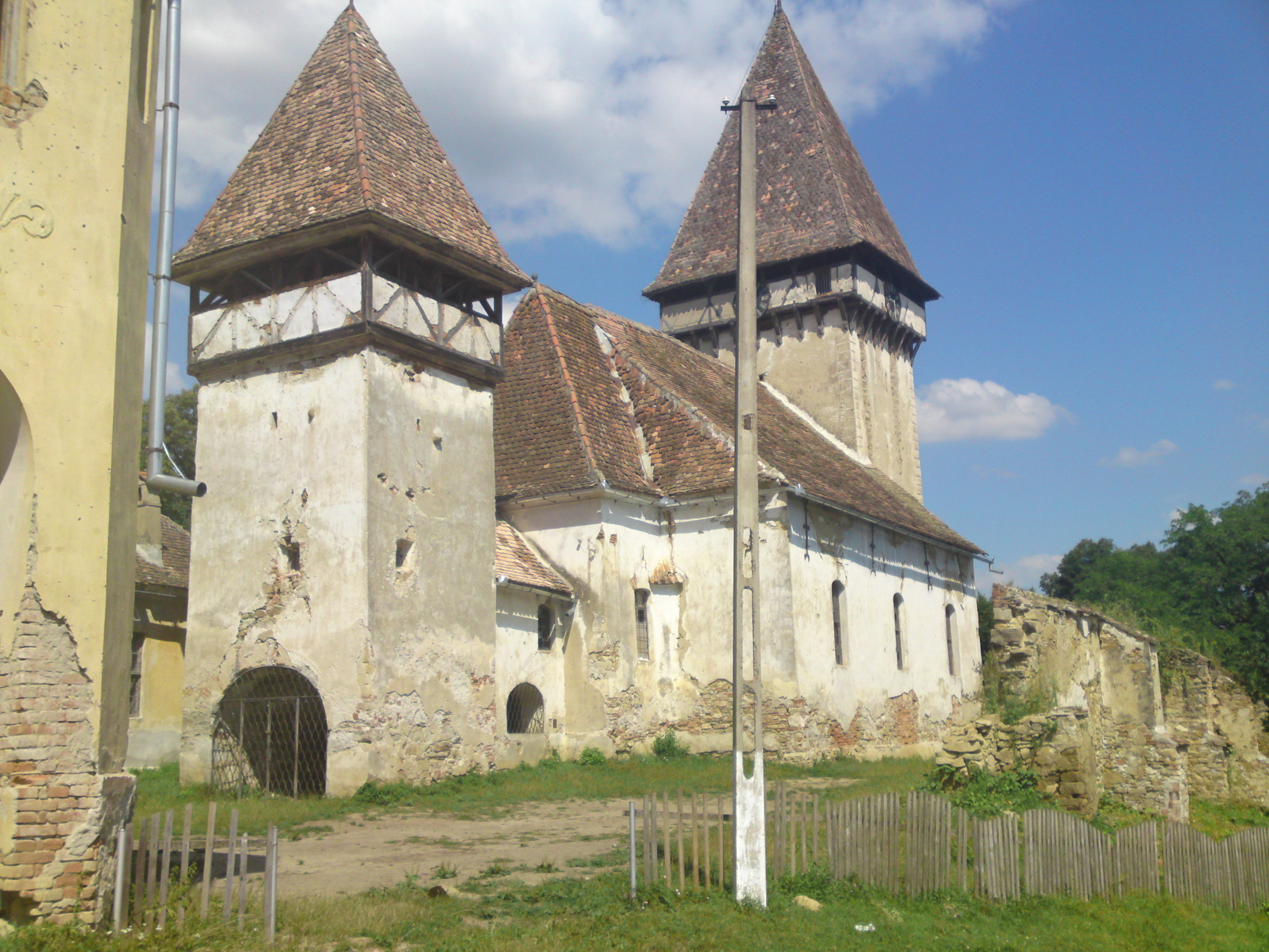 evangelic fortified church of Veseud (Chirpăr)